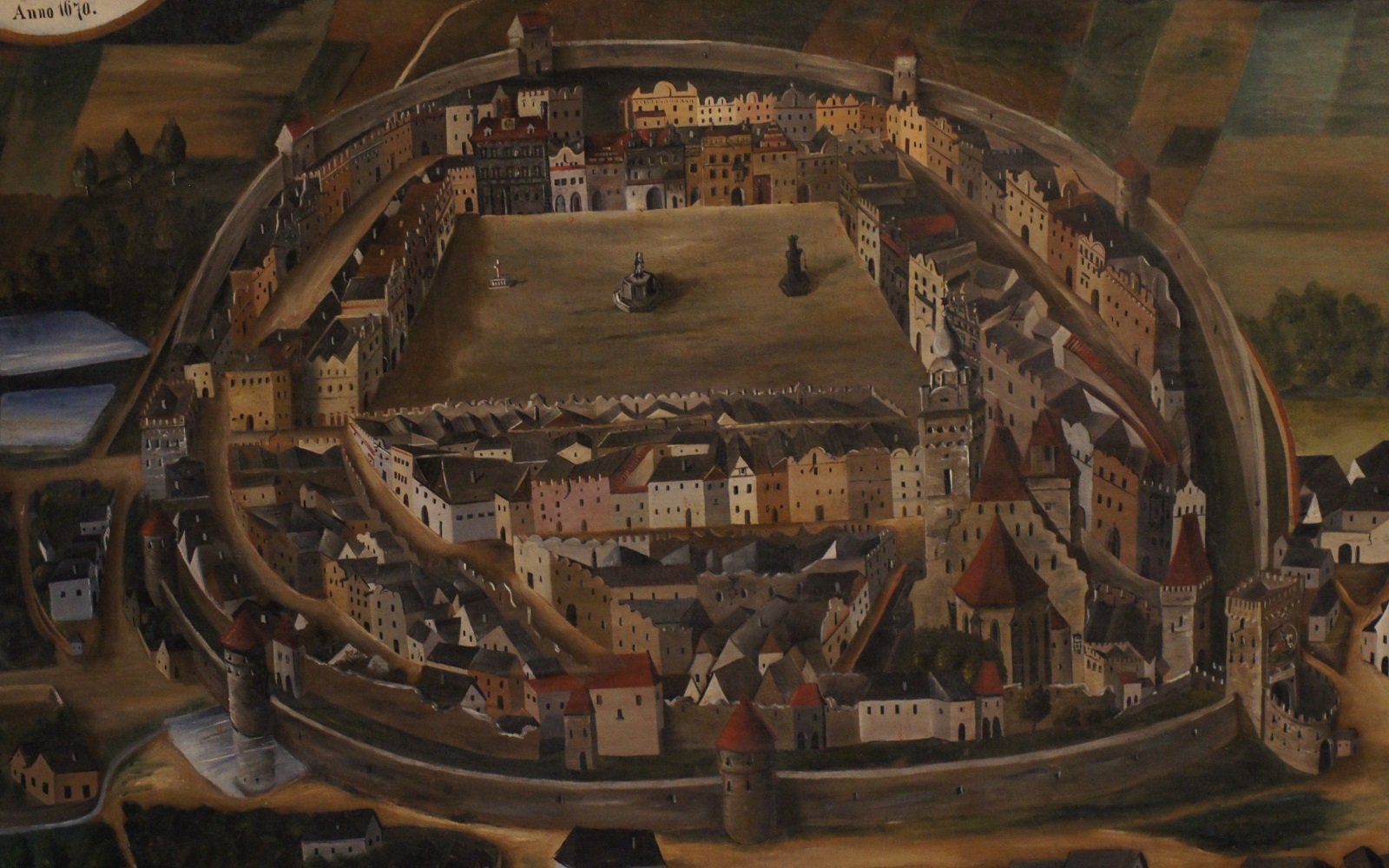 Prachatice with wall and gates - painting of 1670